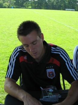 DC United Goalkeeper, Miloš Kočić signing autographs at the Maryland Soccerplex.